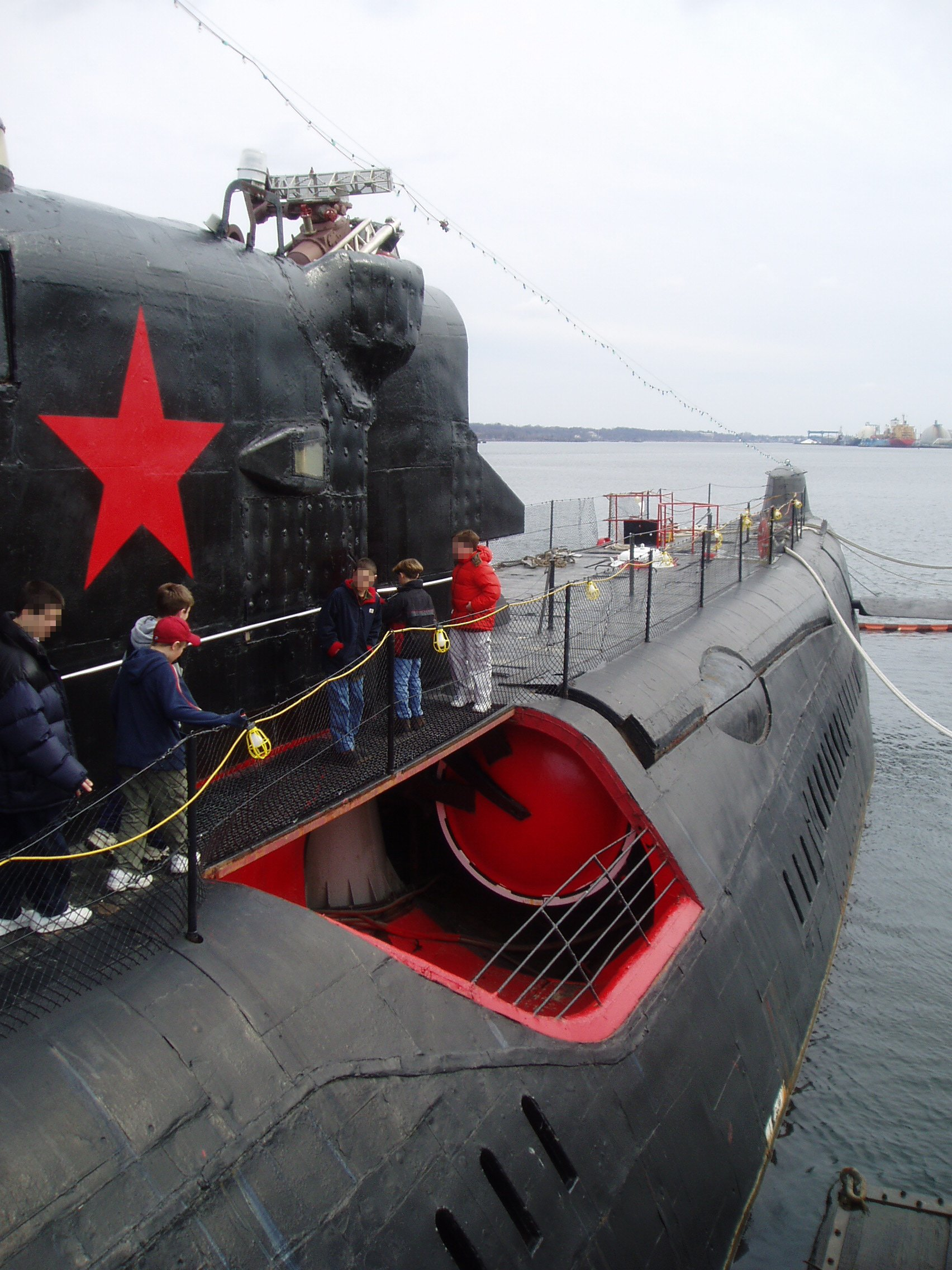 A picture of the side of the Juliett class submarine K-77 docked in Providence, Rhode Island